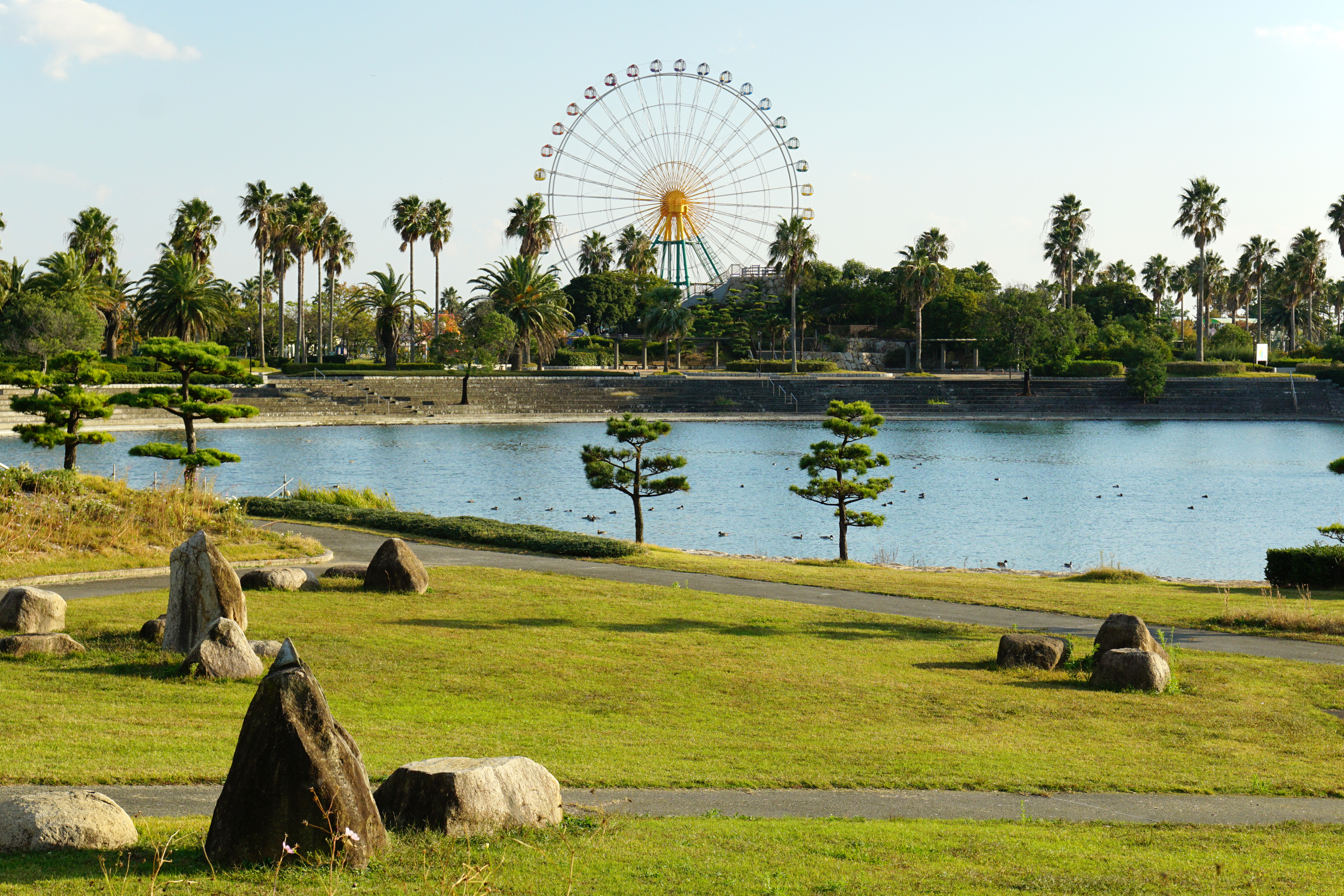 Hyogo prefectural Ako Seaside Park in Ako, Hyogo prefecture, Japan.